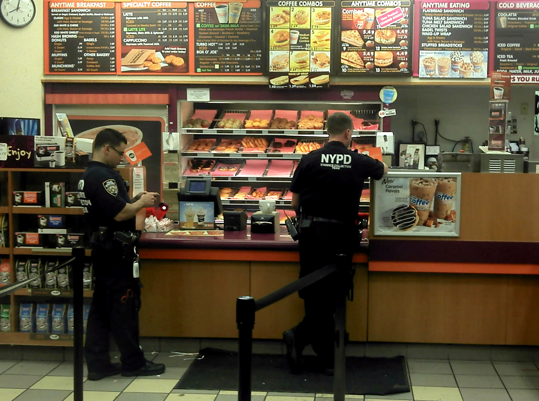 Two NYPD cops in a Dunkin Donuts on Houston Street in the East Village.